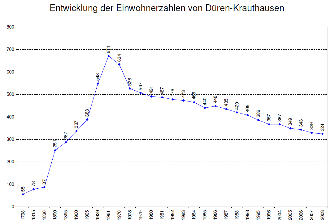 statistical development of the population of Düren-Krauthausen, Germany